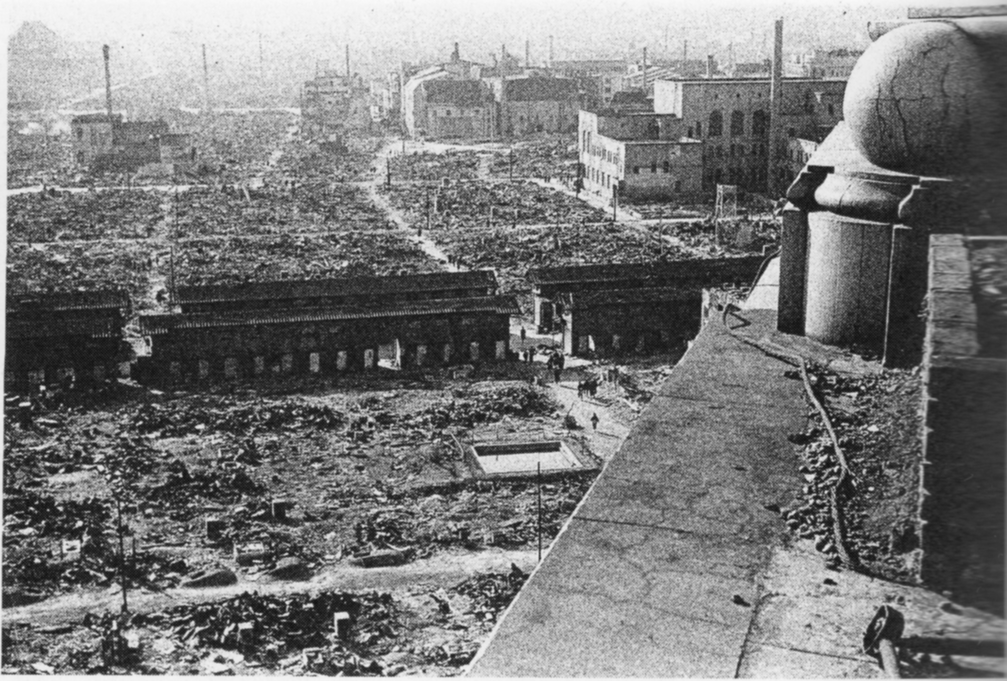 Destroyed Nakamise-dōri seen from the top of Asakusa Matsuya Department Store